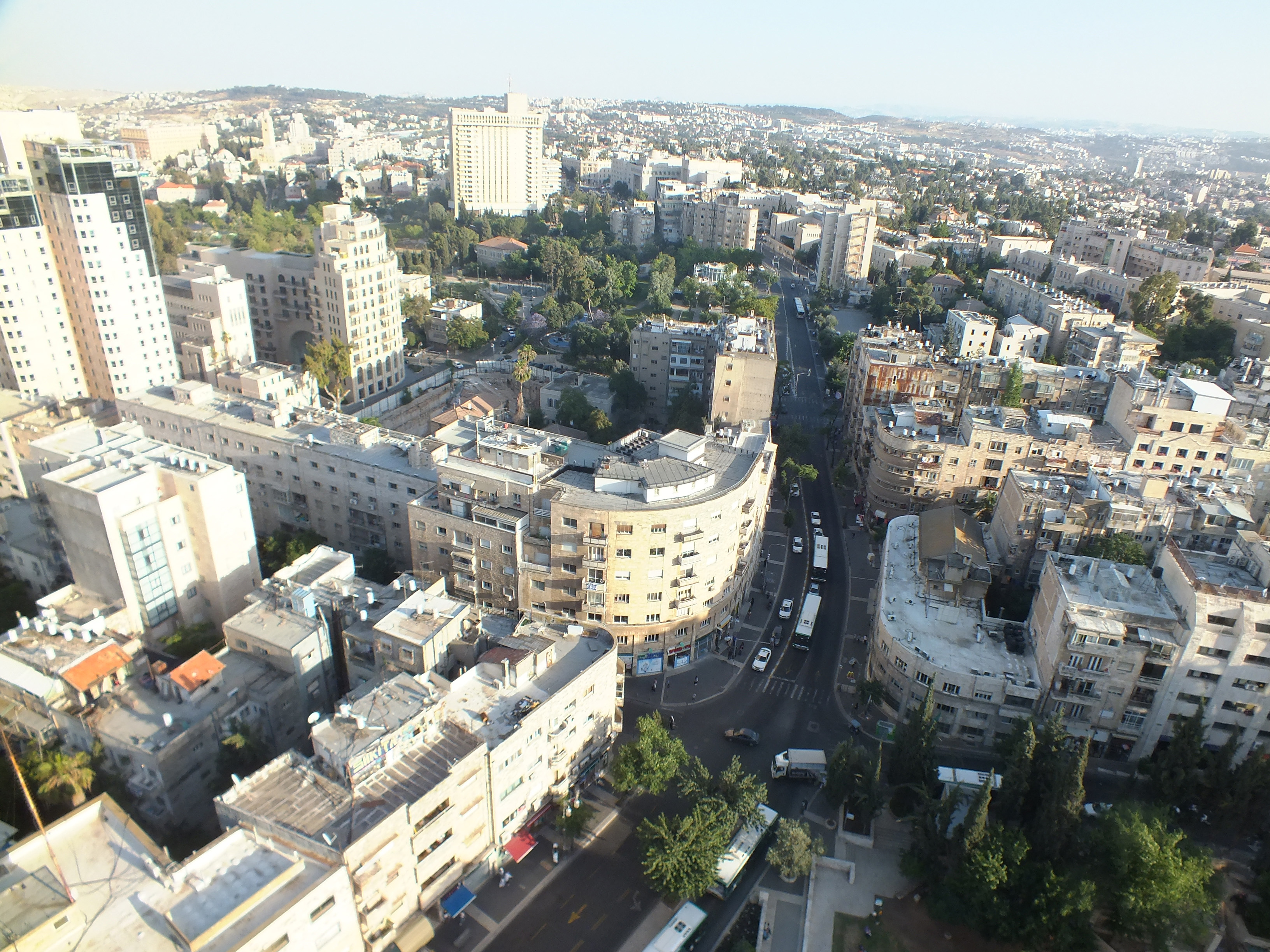 This is the Call of King George Street. A general glance southward.